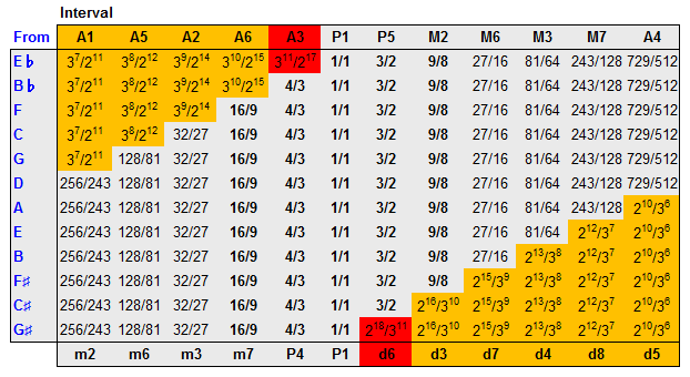 Frequency ratios of the 144 intervals in the D-based Pythagorean tuning system. Bold font indicates just intervals. Wolf intervals are highlighted in red. The values were accurately computed using Microsoft Excel. The image was produced using Microsoft Excel and captured with Microsoft Snipping Tool.